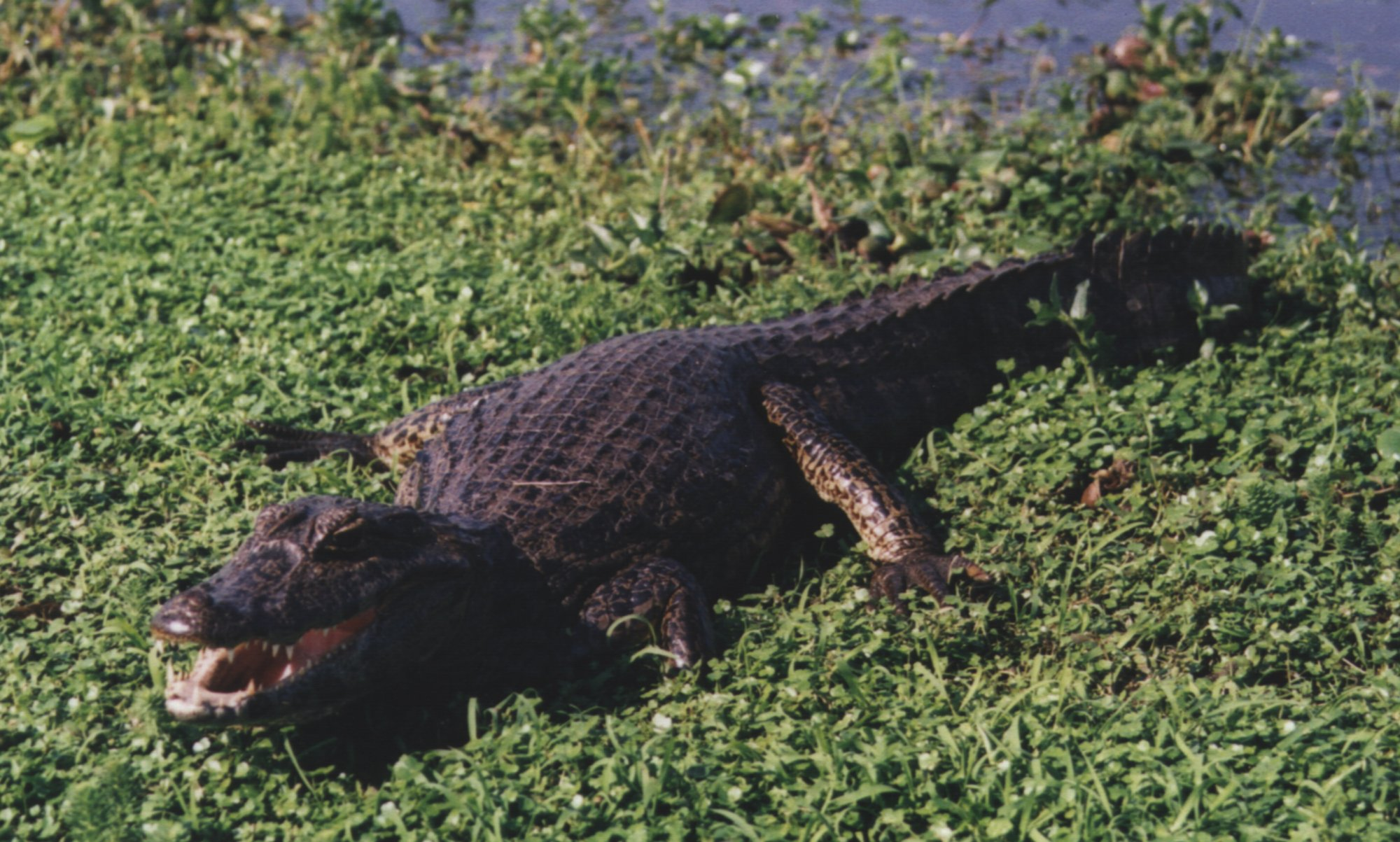 Adult Yacare Caiman (Caiman yacare) at the Iberá marshes, Corrientes, Argentina.